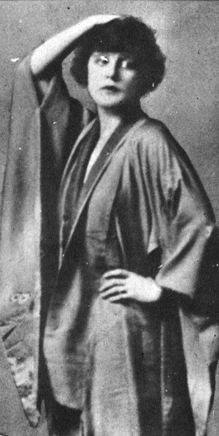 Julia Bruns as depicted in a 1918 newspaper